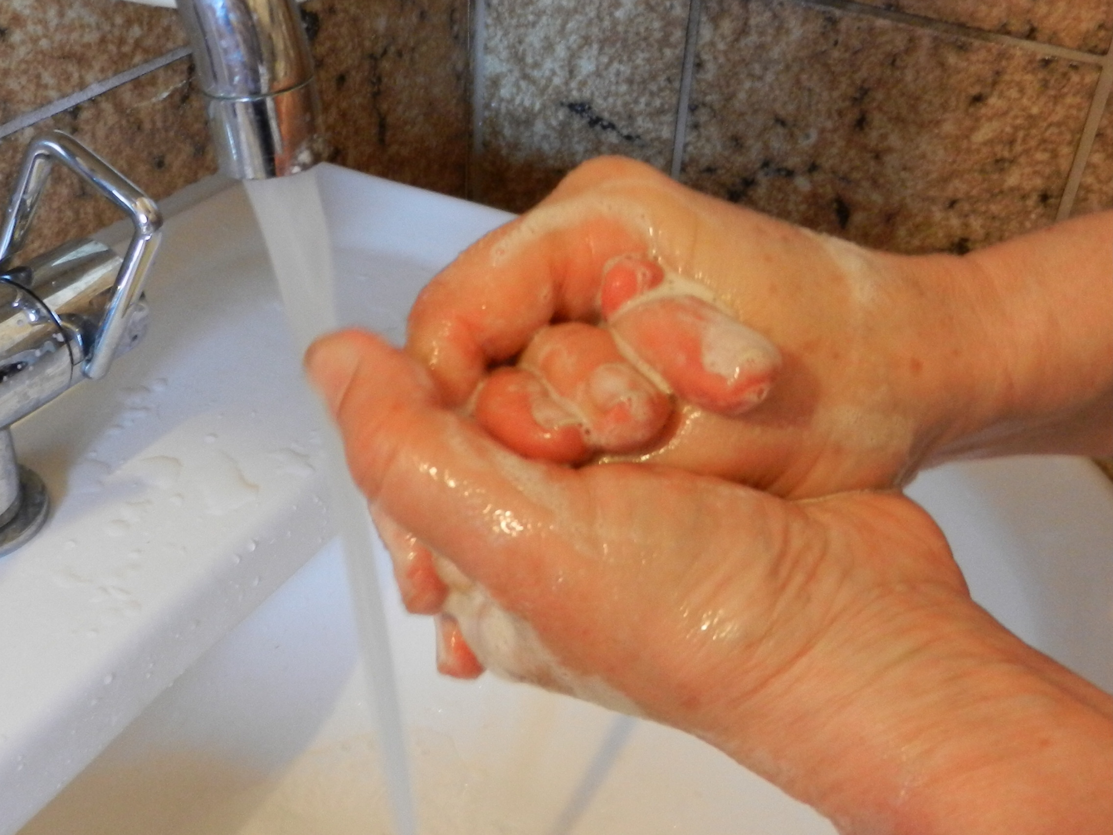 A person washes his hands with soap under the tap.